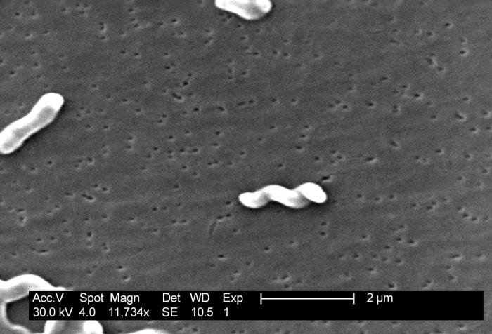 ID#: 5778 Description: This scanning electron micrograph depicts a number of Gram-negative Campylobacter jejuni bacteria, magnified 11,734x. C. jejuni is a slender, curved, motile rod that’s microaerophilic, i.e., it has a requirement for reduced levels of oxygen. It’s relatively fragile, sensitive to environmental stresses such as drying, heating, disinfectants, and acidic conditions. Content Providers(s): CDC/ Dr. Patricia Fields, Dr. Collette Fitzgerald Provider Email: Creation Date: 2004 Photo Credit: Janice Carr Copyright Restrictions: None - This image is in the public domain and thus free of any copyright restrictions. As a matter of courtesy we request that the content provider be credited and notified in any public or private usage of this image.